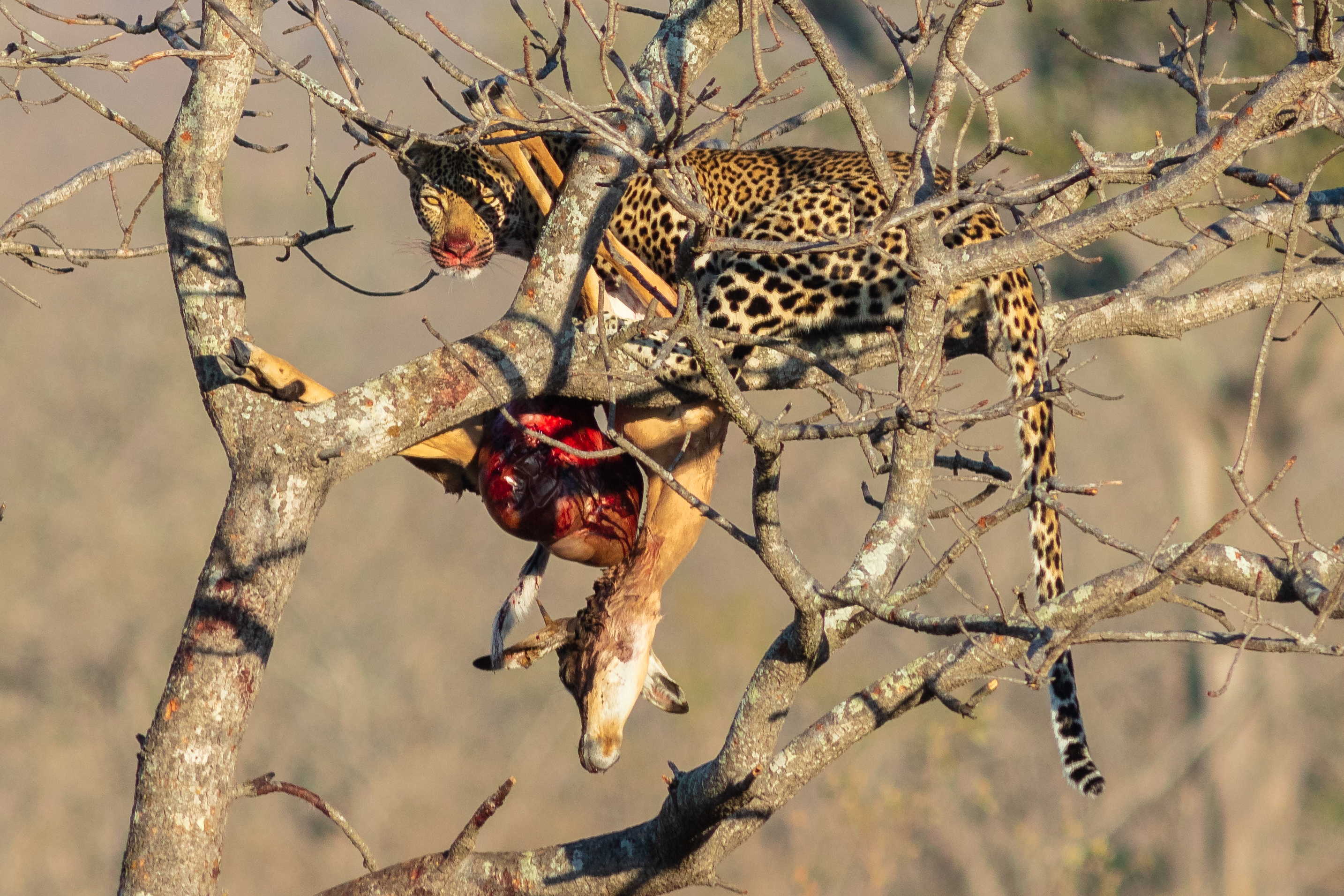 Leopard (Panthera pardus) devouring an antelope, Kruger National Park, South Africa